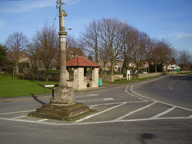 Stone cross on the B1429 Sleaford Road in Cranwell, Lincolnshire